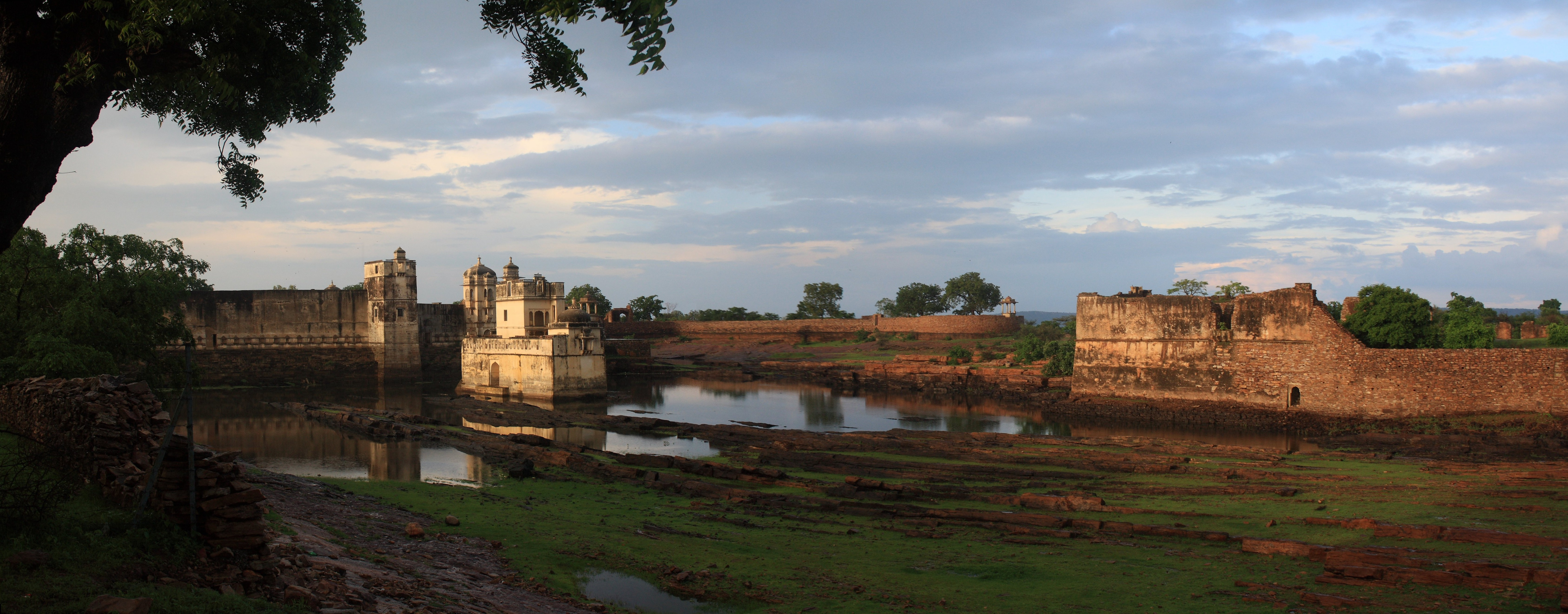 Reflection of the Island in a water reservoir at Chittorgarh Fort, Rajasthan, India.